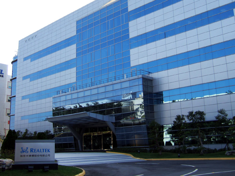 Front view of Realtek building